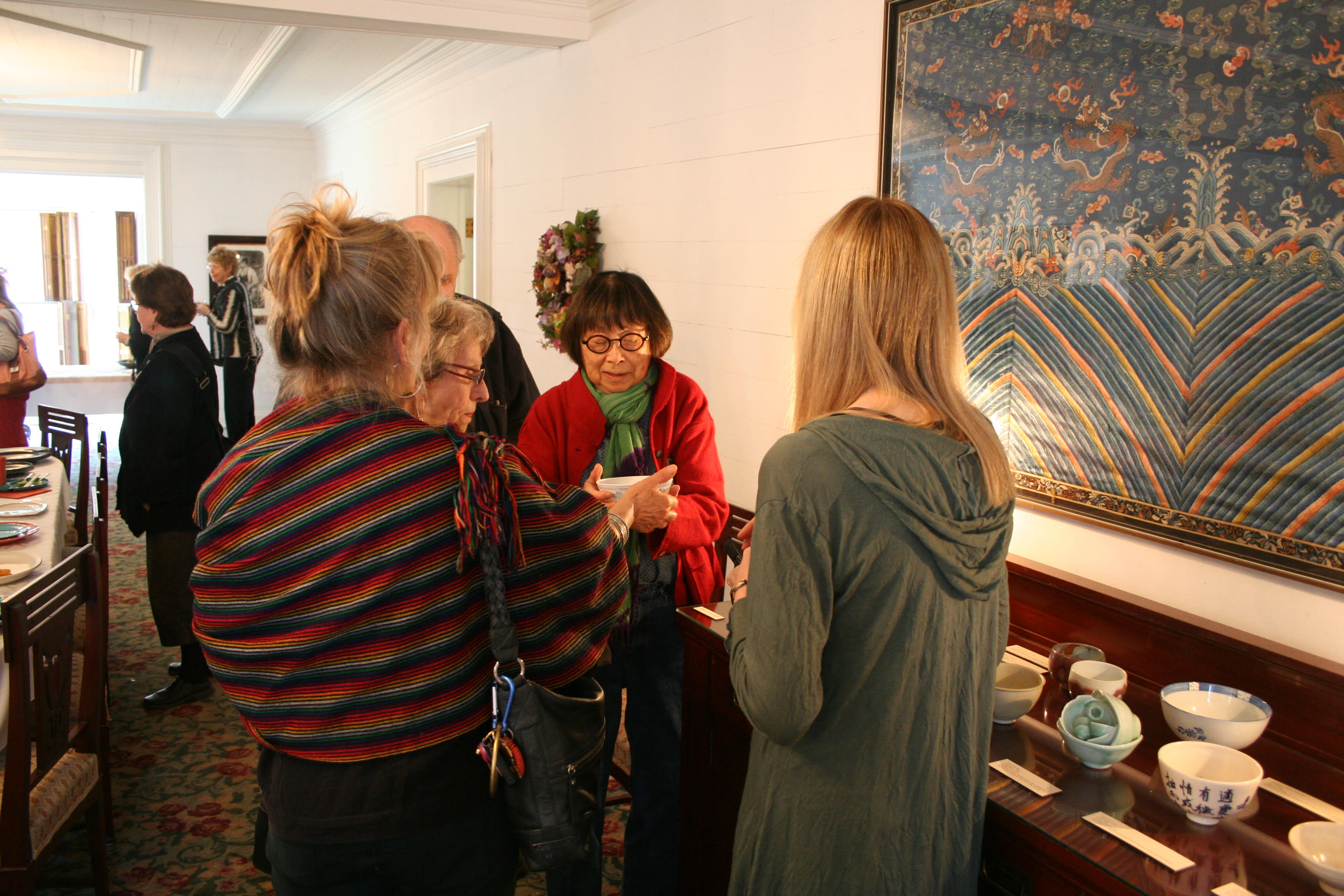 Four people stand in a circle talking, with dishware behind them at an exhibition.